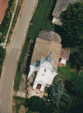 Álmosd, Hungary - Church